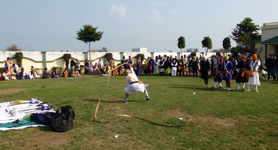 Bhujangi, Young Nihang Singh, showing Aara skills at Gatka during First Gurmati Sikhaarthee Sammelan Sachkhoj Academy Sirhind